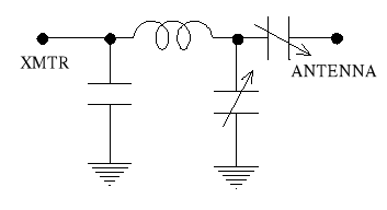 Diagram of the circuit used in Drake tuners, this is a modified pi network.